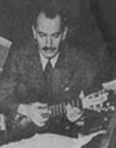 Atuto Mercau Soria. Argentina. Folk musician.